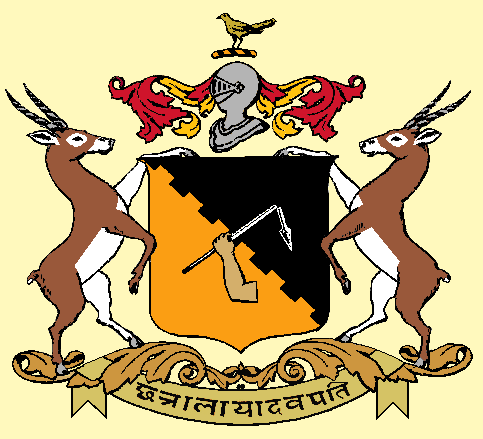 Jaisalmer State Coat of arms This work is in the public domain in India because its term of copyright has expired. The Indian Copyright Act applies in India, to works first published in India. According to The Indian Copyright Act, 1957 (Chapter V Section 25), Anonymous works, photographs, cinematographic works, sound recordings, government works, and works of corporate authorship or of international organizations enter the public domain 60 years after the date on which they were first published, counted from the beginning of the following calendar year (ie. as of 2016, works published prior to 1 January 1956 are considered public domain). Posthumous works (other than those above) enter the public domain after 60 years from publication date. Any other kind of work enters the public domain 60 years after the author's death. Text of laws, judicial opinions, and other government reports are free from copyright. Photographs created before 1958 are in the public domain 50 years after creation, as per the Copyright Act 1911. This file may not be in the public domain outside India. The creator and year of publication are essential information and must be provided. See Wikipedia:Public domain and Wikipedia:Copyrights for more details. This image shows a flag, a coat of arms, a seal or some other official insignia. The use of such symbols is restricted in many countries. These restrictions are independent of the copyright status.